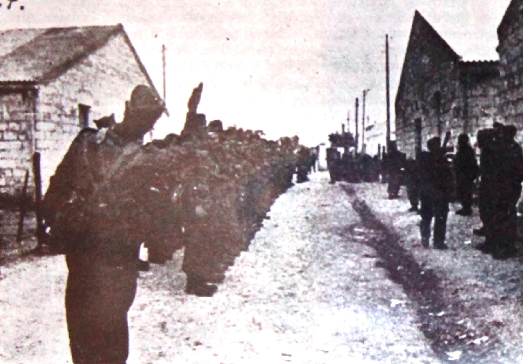 Borci 1. in 2. prekomorske brigade v Gravini decembra 1943 pred odhodom na vsakodnevni pouk.